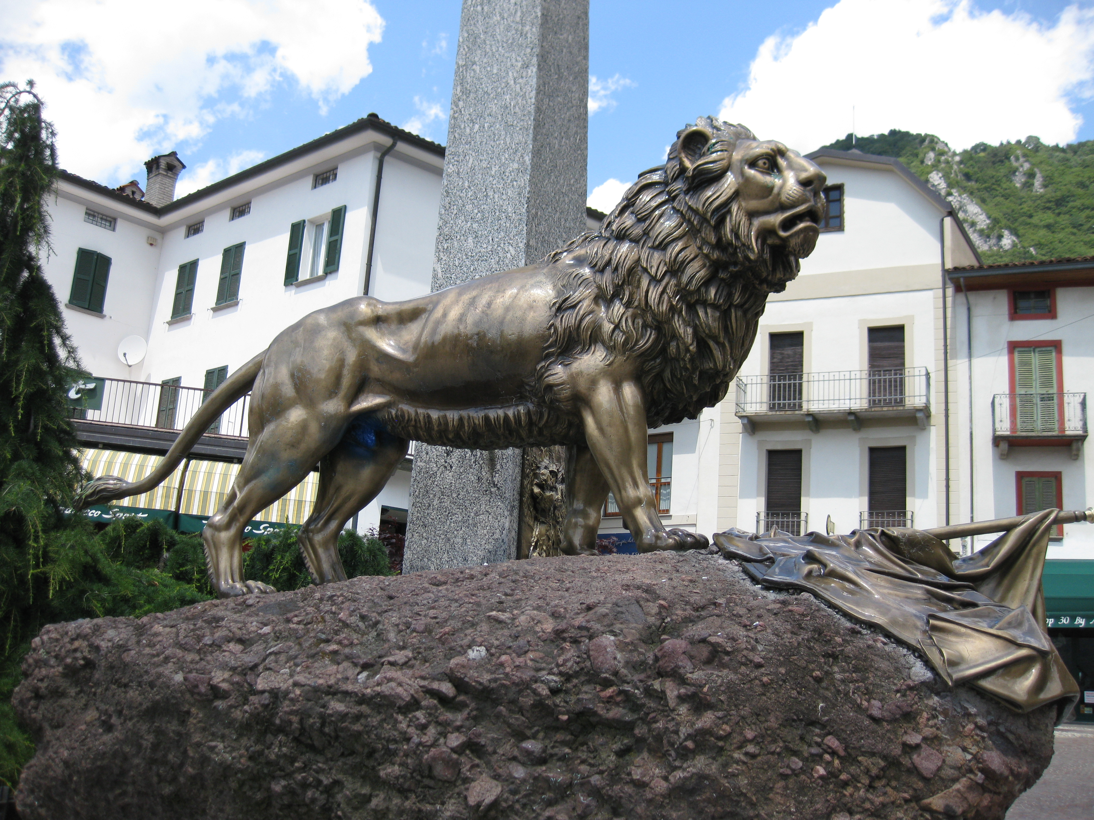 Barzio, Monumento ai caduti This is a photo of a monument which is part of cultural heritage of Italy.